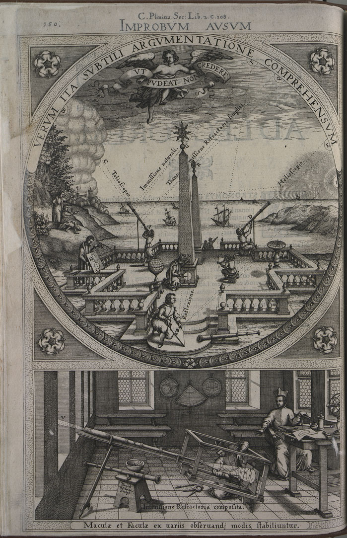 Methods of observing the sun